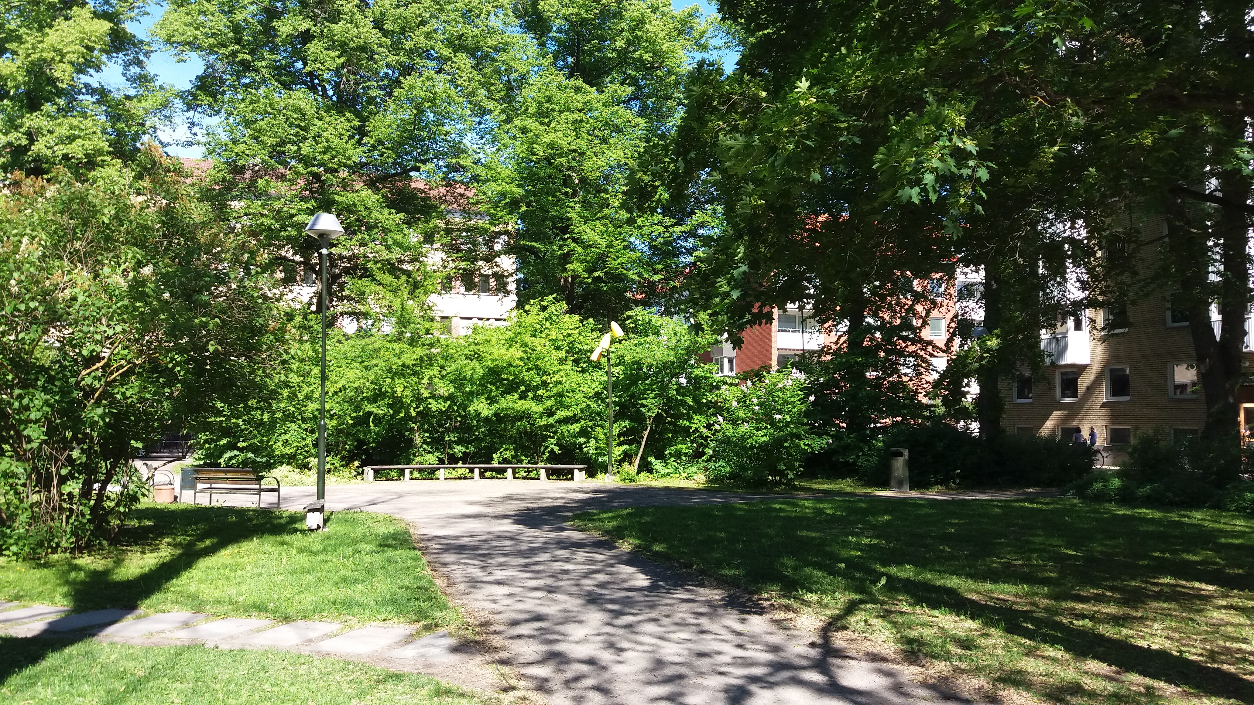 Kvarteret Rinda, Uppsala